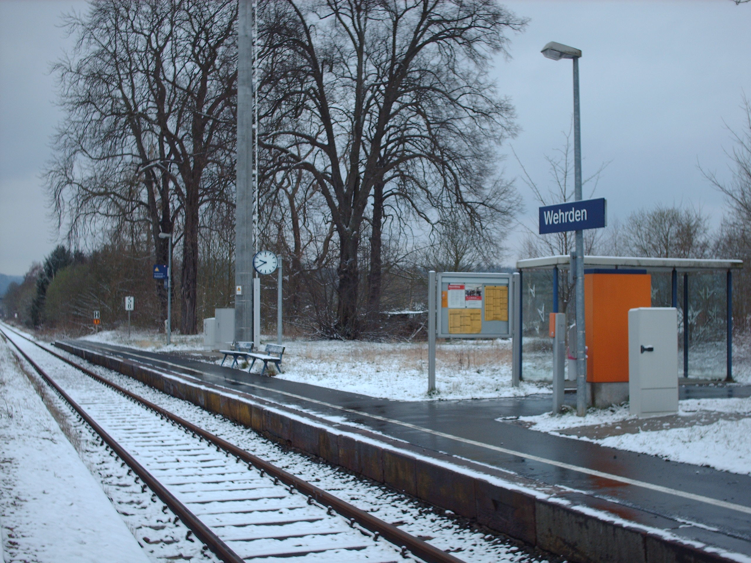 Wehrden station, Beverungen, Germany check usage